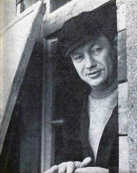 Polish film director Wojciech Jerzy Has.